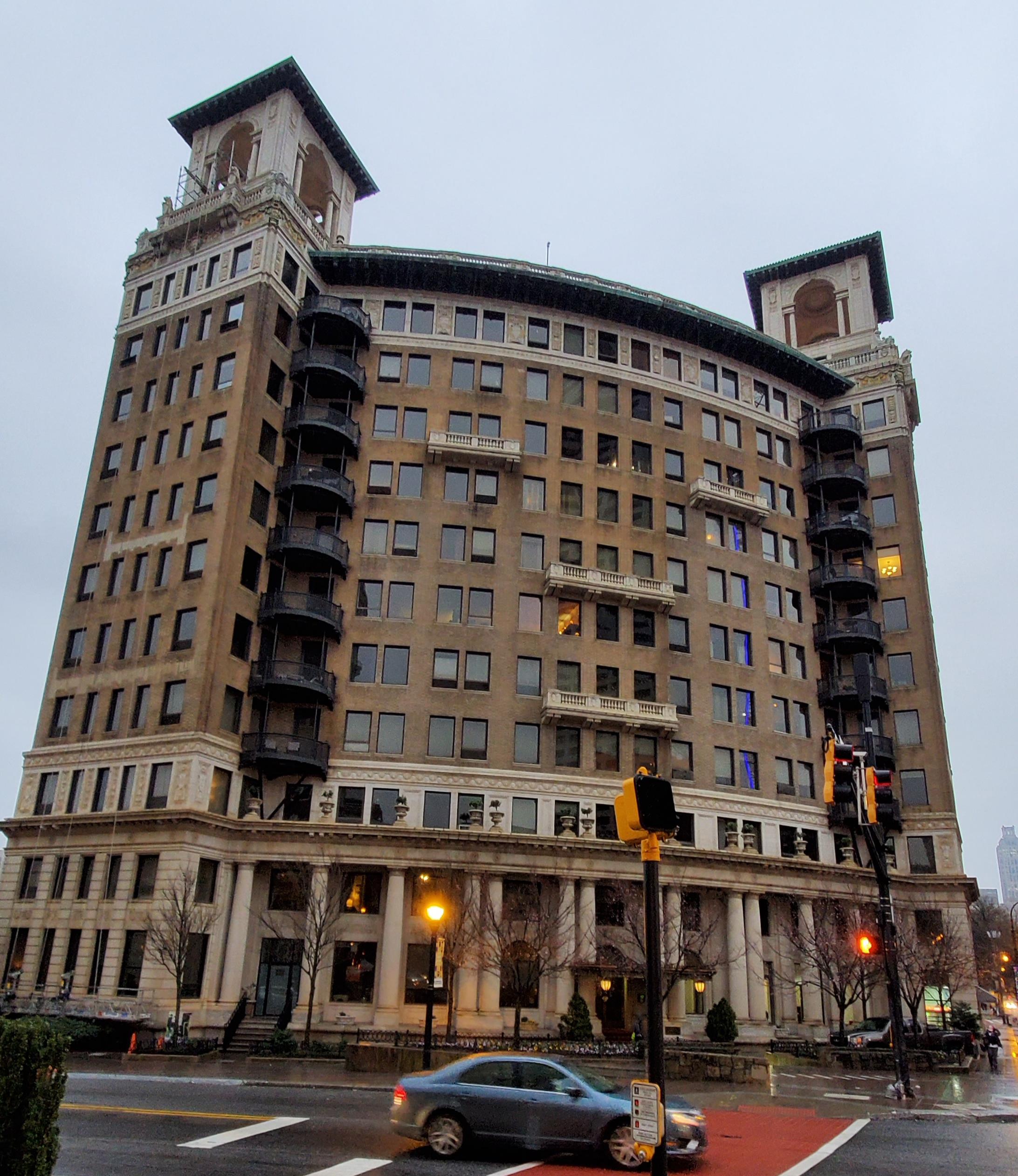 Ponce de Leon Apartments in midtown Atlanta, Georgia.